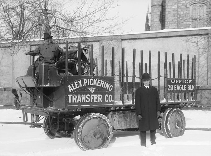 Alex Pickering Transfer Company, early moving truck, Salt Lake City 1911. Commercial photo for advertisement, published circa 1911. "Image shows two men standing with their classic Pickering Transfer Company truck, outside the Temple Square wall on West Temple."